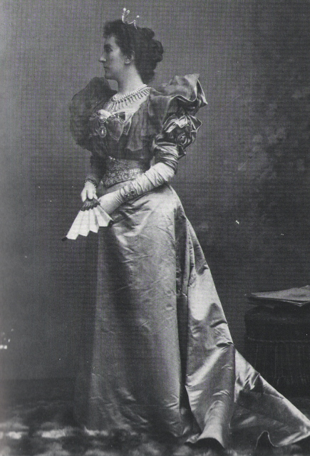 Grand Duchess Milica Nikolaevna of Russia, née Princess Milica of Montenegro